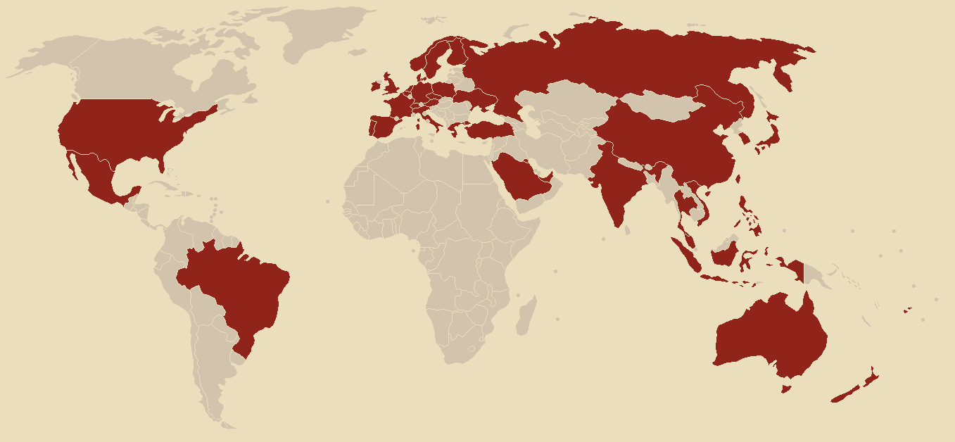 Countries where Burberry Group plc is present as listed here : [1]